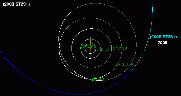 The orbit of 2008 ST291 compared to Pluto and Neptune. This dwarf planet candidate takes over 1,000 years to orbit the Sun. Of the dwarf planets and known dwarf planet candidates, only Sedna and 2005 QU182 are known to have a longer orbit around the Sun.